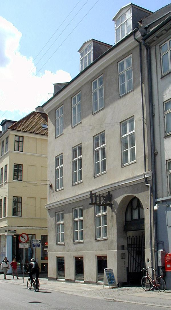 Danish School Museum photographed from Rådhusstræde